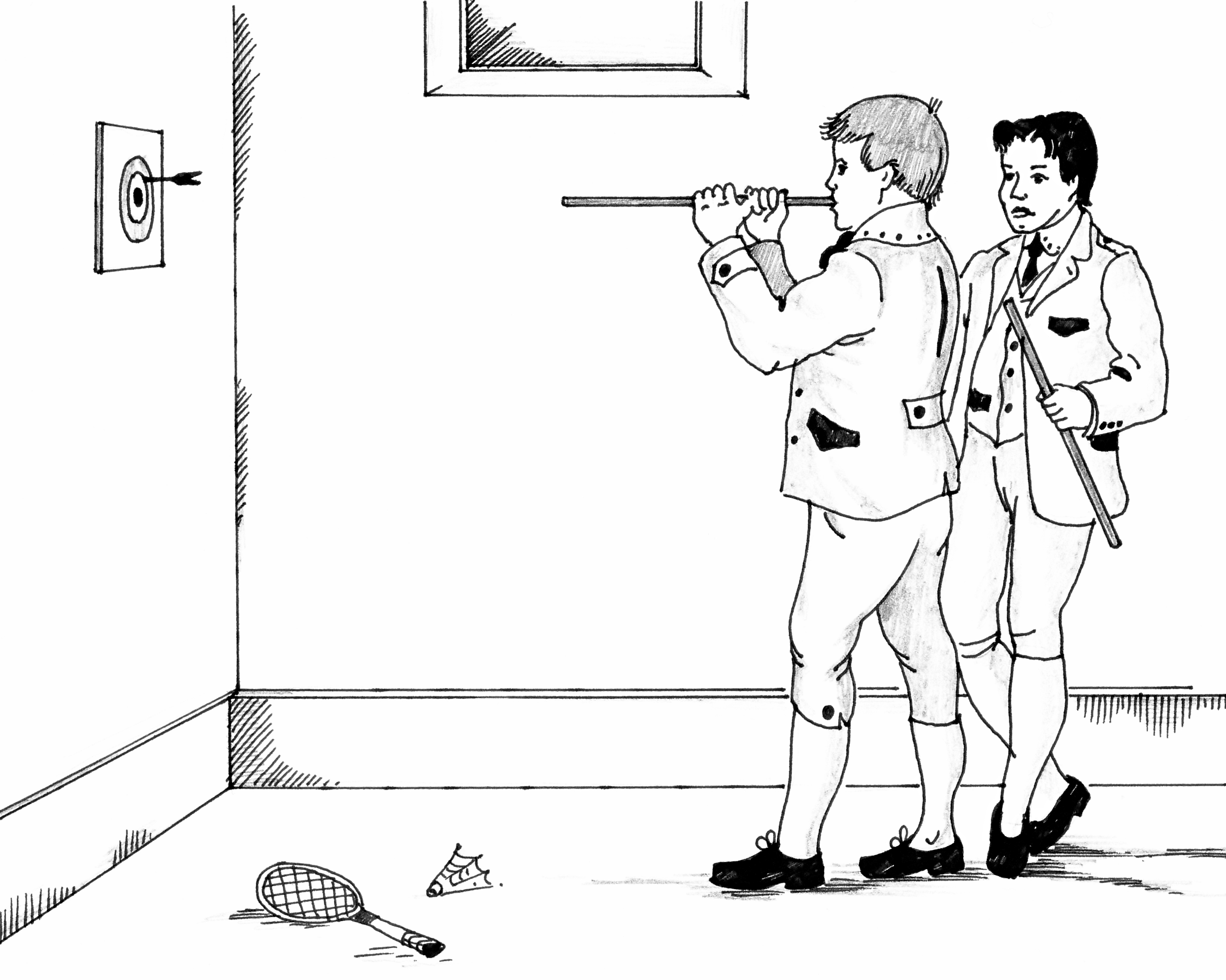 Boys playing «Puff and Dart»